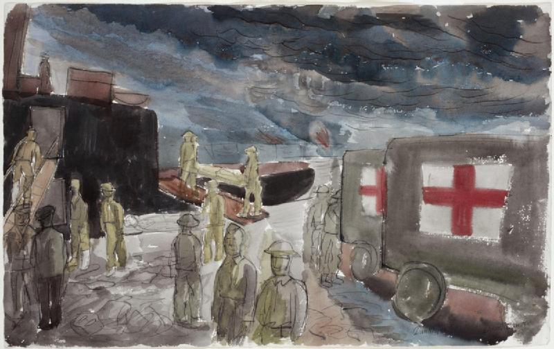 Dunkirk- Embarkation of Wounded, May 1940 image: A group of soldiers gathered on a quayside next to a ship. There are two ambulances parked on the quayside and a man on a strecher is being carried onto the ship via a gangplank.